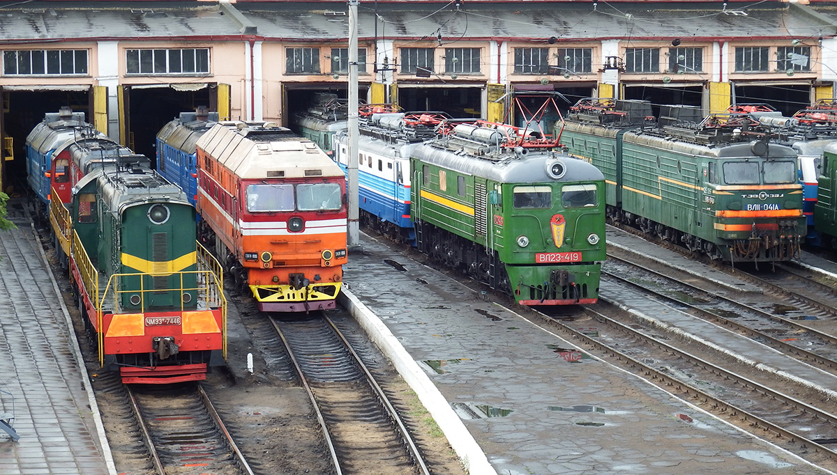 Russia, Orel region, Orel depot. In the foreground from left to right - shunting locomotive ChME3T-7446, passenger locomotive TEP70-0086, freight electric VL23-419, freight electric VL11-041. In the background - freight locomotives M62 and passenger locomotives ChS2k